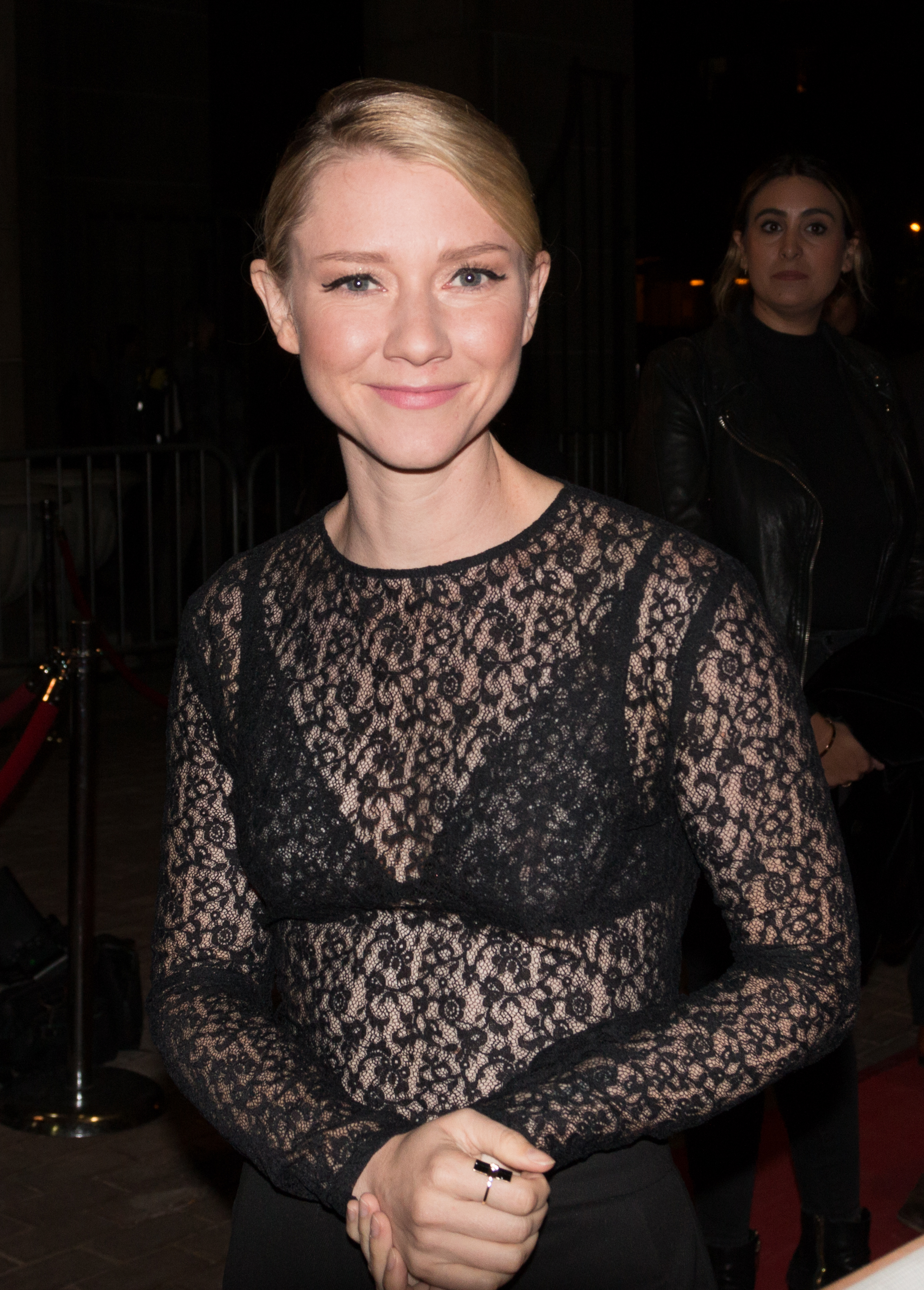 Actress Valorie Curry at the premiere of "Blair Witch" at the 2016 Toronto International Film Festival